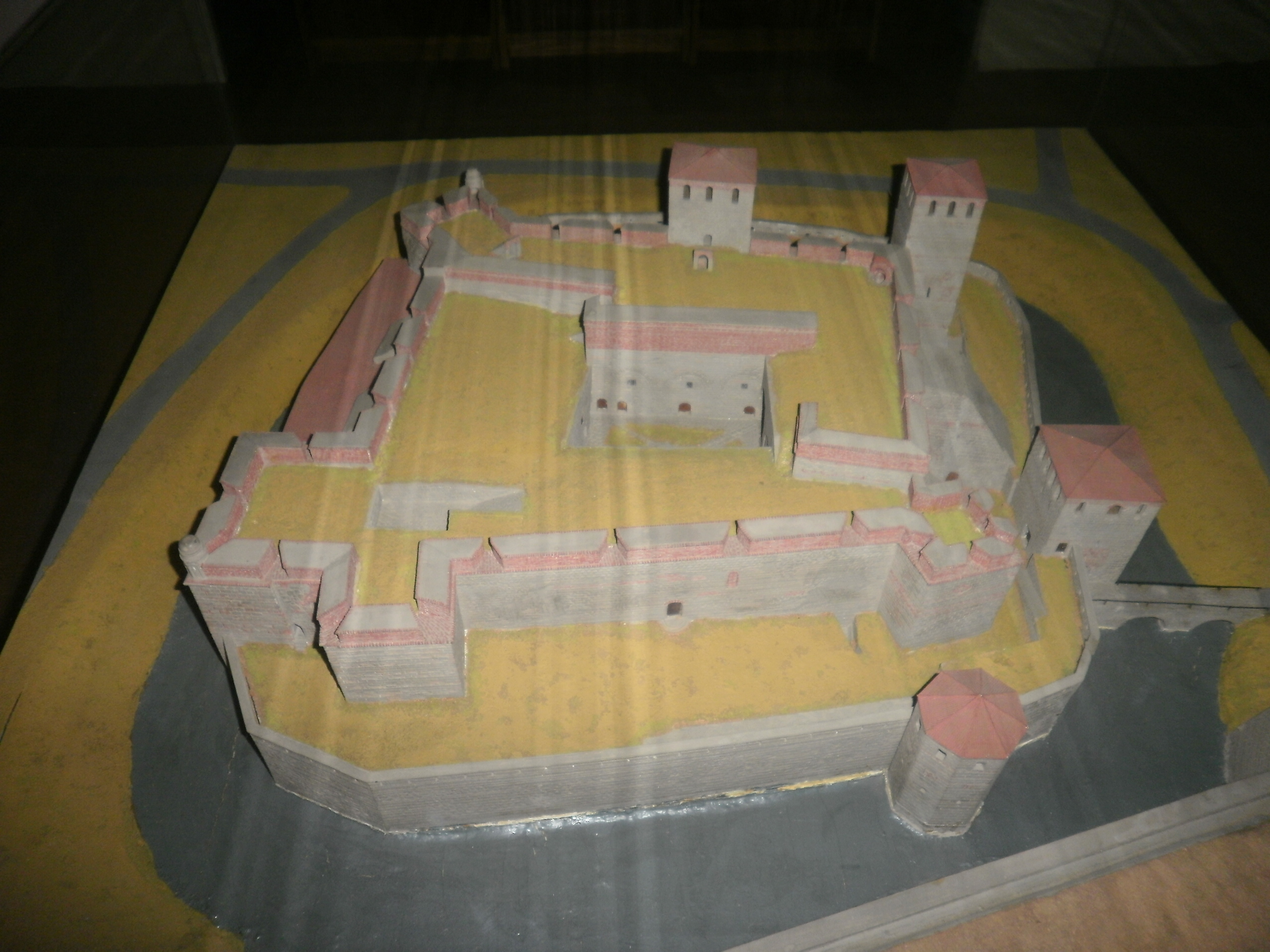 Historical Museum Vidin, Vidin, Bulgaria.